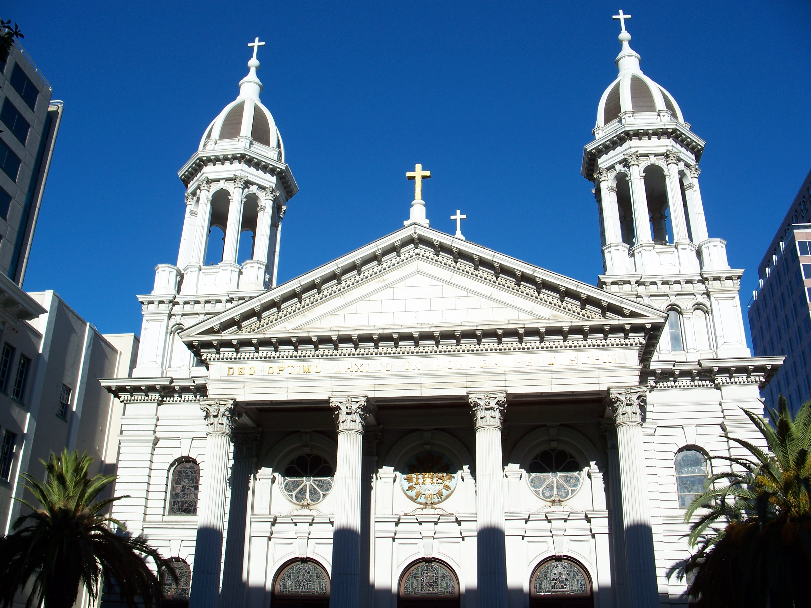 Cathedral Basilica of Saint Joseph. San Jose, California, USA